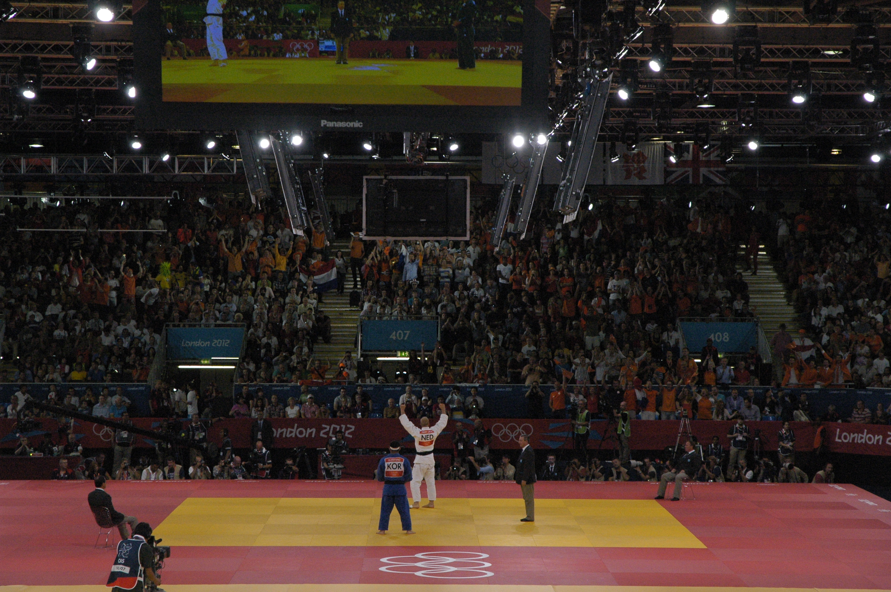 Henk Grol winning the bronze medal match Judo at the 2012 Summer Olympics